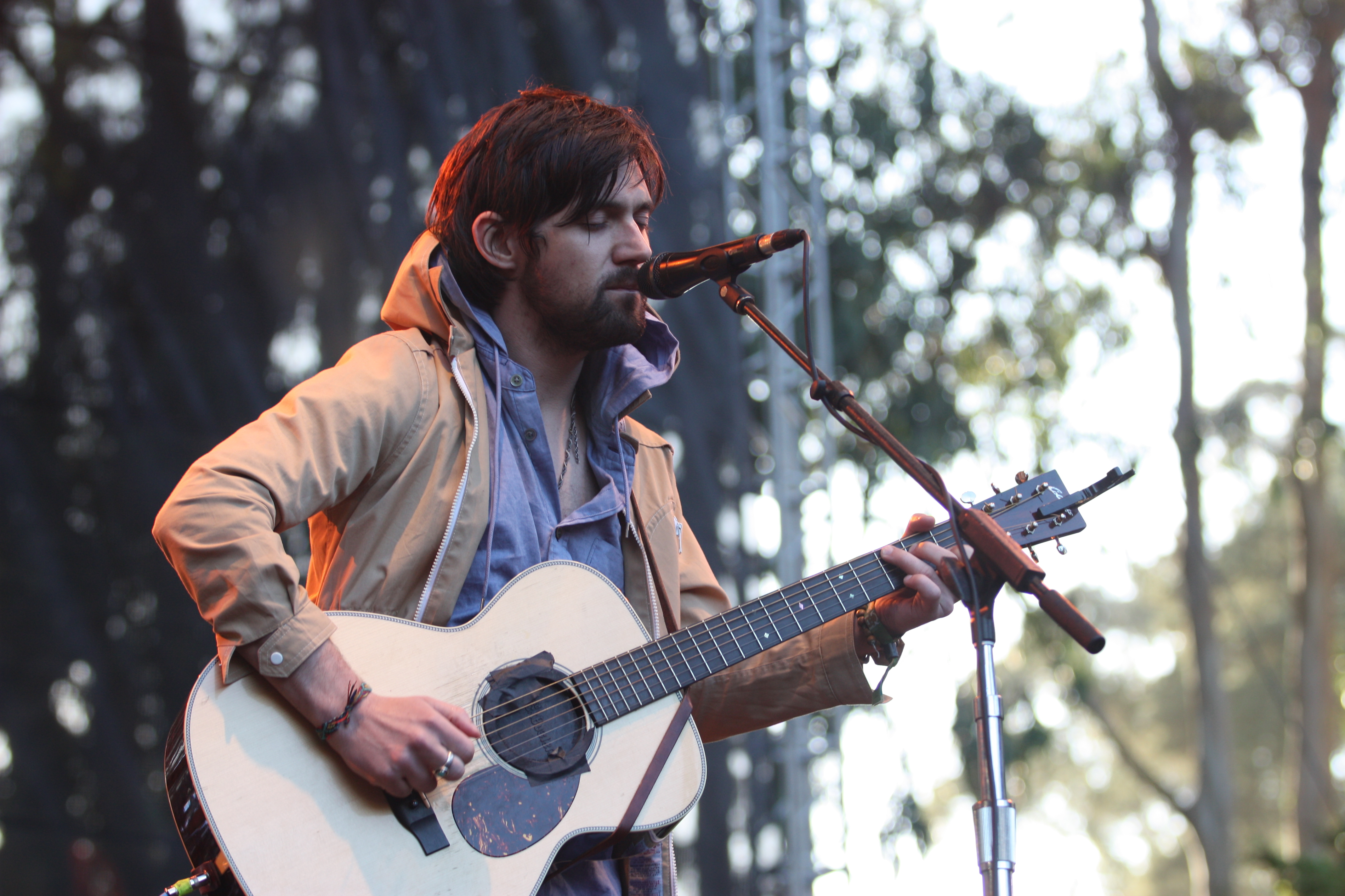 Conor Oberst performing at Outside Lands 2009